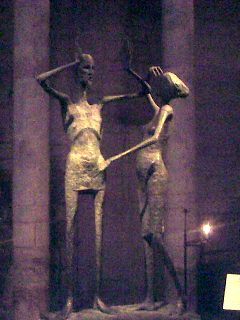 Sculpture - Mary Magdalene Recognises Jesus by David Wynne